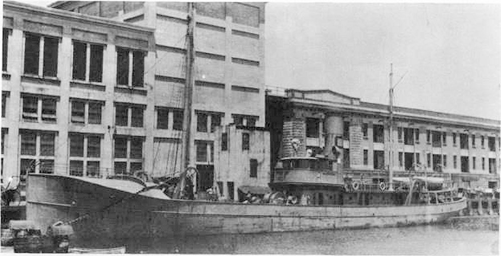 Utowana (American Trawler, ex-Yacht, 1891) In port, probably shortly after she was converted from a yacht to a trawler in 1917. This vessel was acquired by the U.S. Navy on 14 July 1917, commissioned as USS Utowana (SP-951) on 30 October 1917, stricken on 27 September 1919 and sold on 13 September 1920. Note the "C" funnel marking of her owner, the Commonwealth Fisheries Company of Boston, Massachusetts. U.S. Naval Historical Center Photograph.